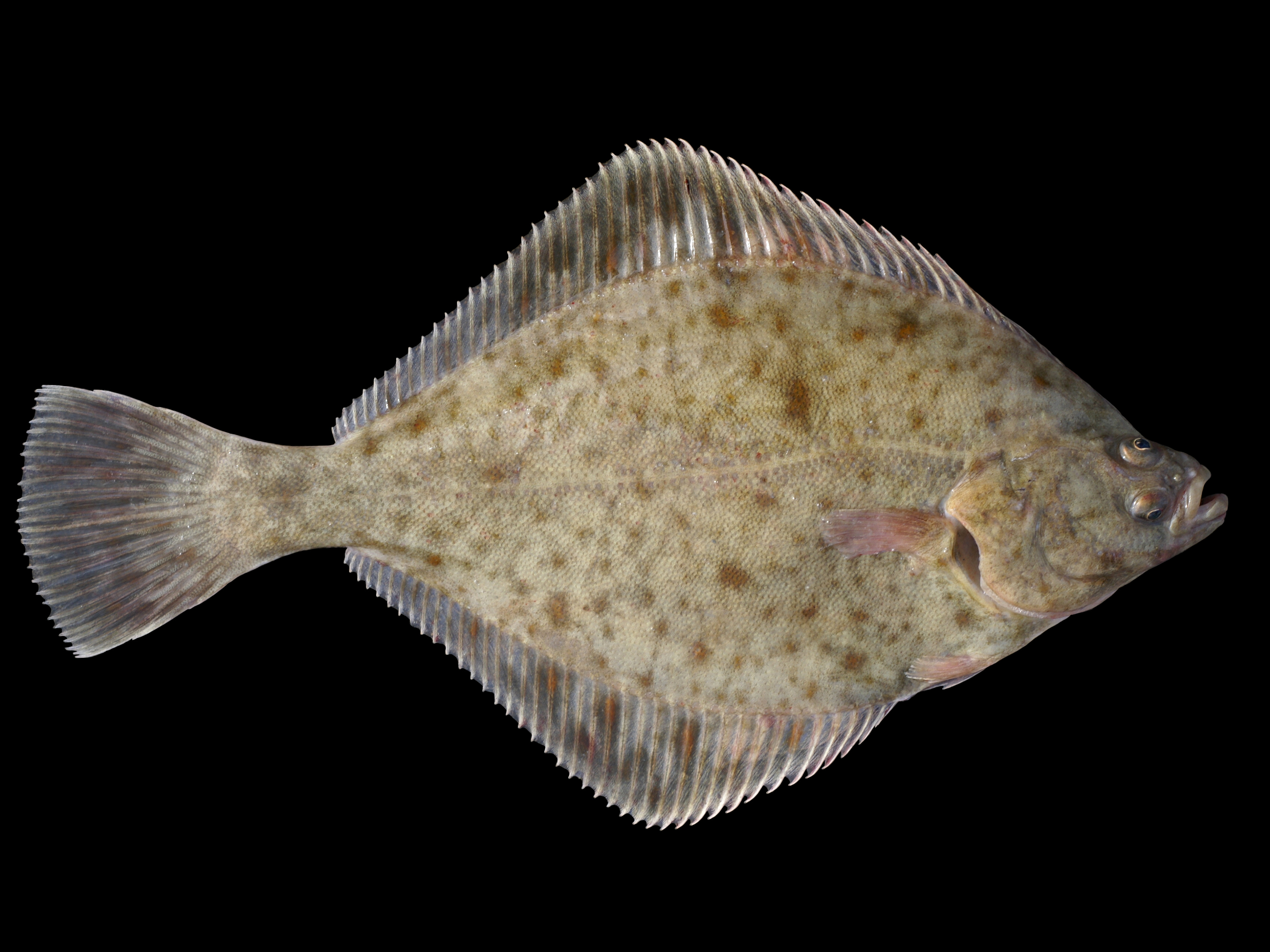 Flounder from Oost Dyck bank in the Southern North Sea.